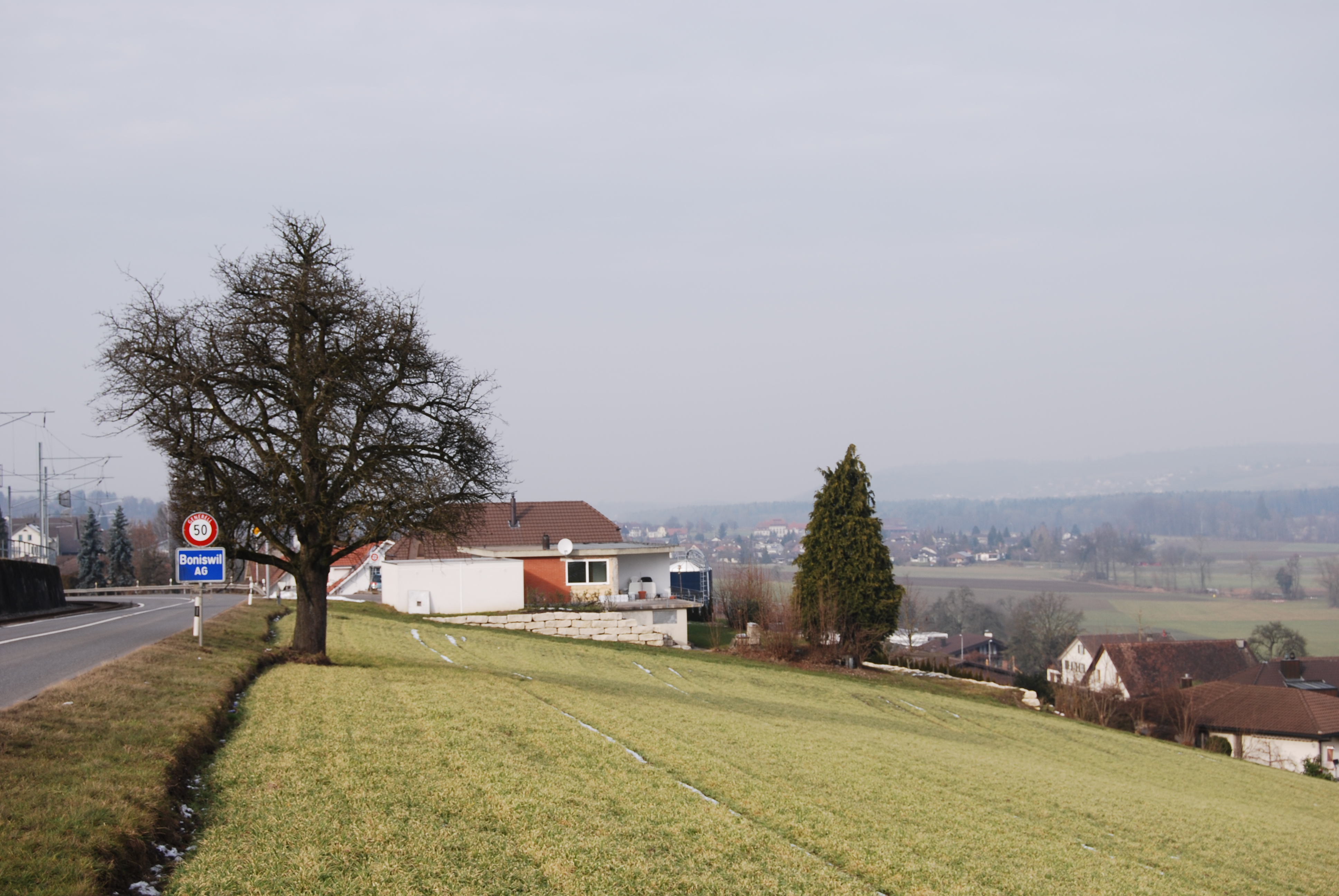 Village entry of Boniswil, canton of Aargau, SwitzerlandEsperanto: Vilaĝeniro de Boniswil, Kantono Argovio, Svislando